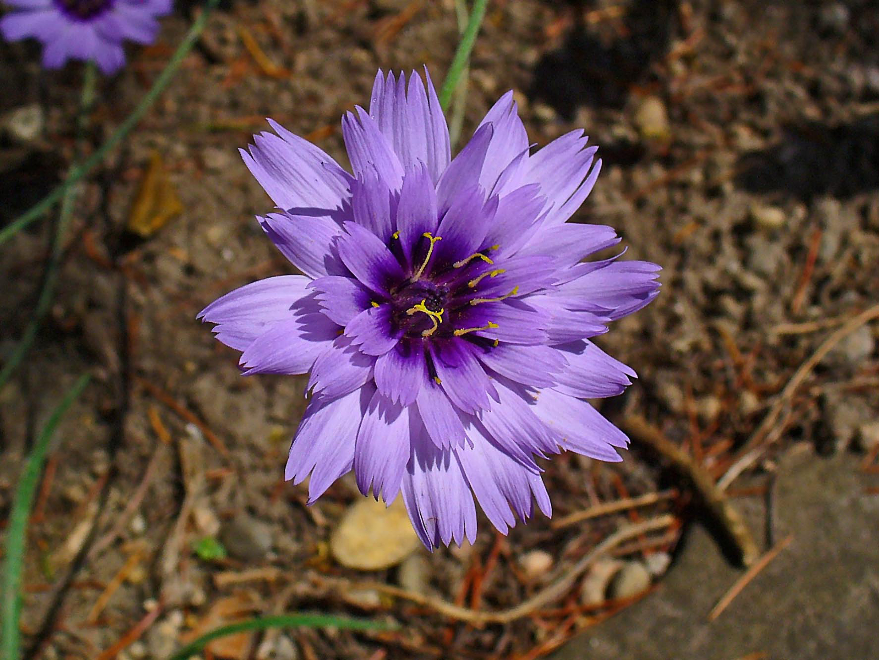 Catananche caerulea, Asteraceae, Cupid's Dart, Blue Cupidone, Cerverina, inflorescence; Botanical Garden KIT, Karlsruhe, Germany.